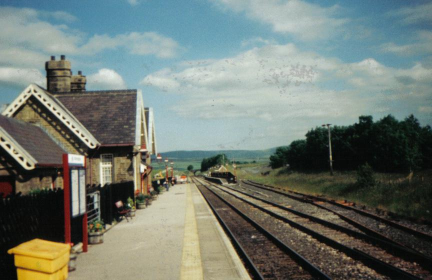 Ribblehead railway station on the Settle & Carlisle line. July 2005 - looking towards Settle.